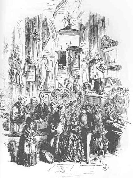 Illustration by Phiz for the Charles Dickens' work David Copperfield.